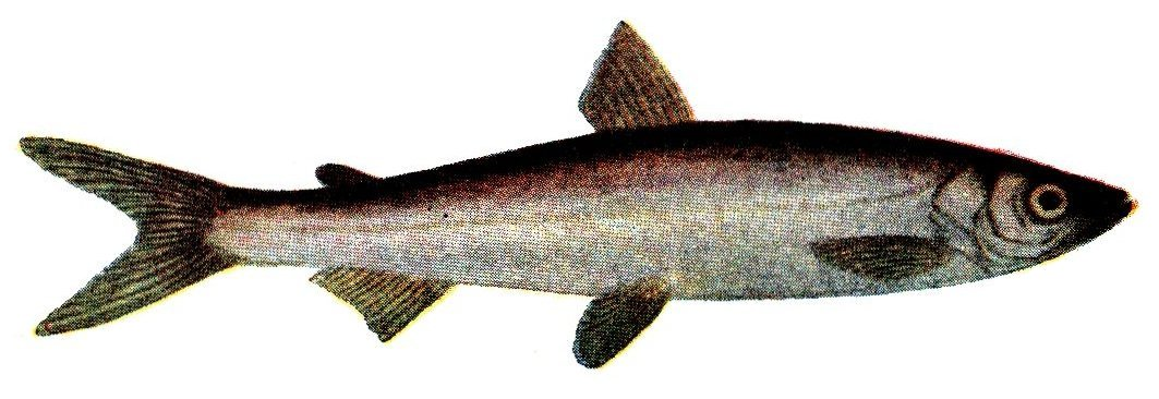 Coregonus albula